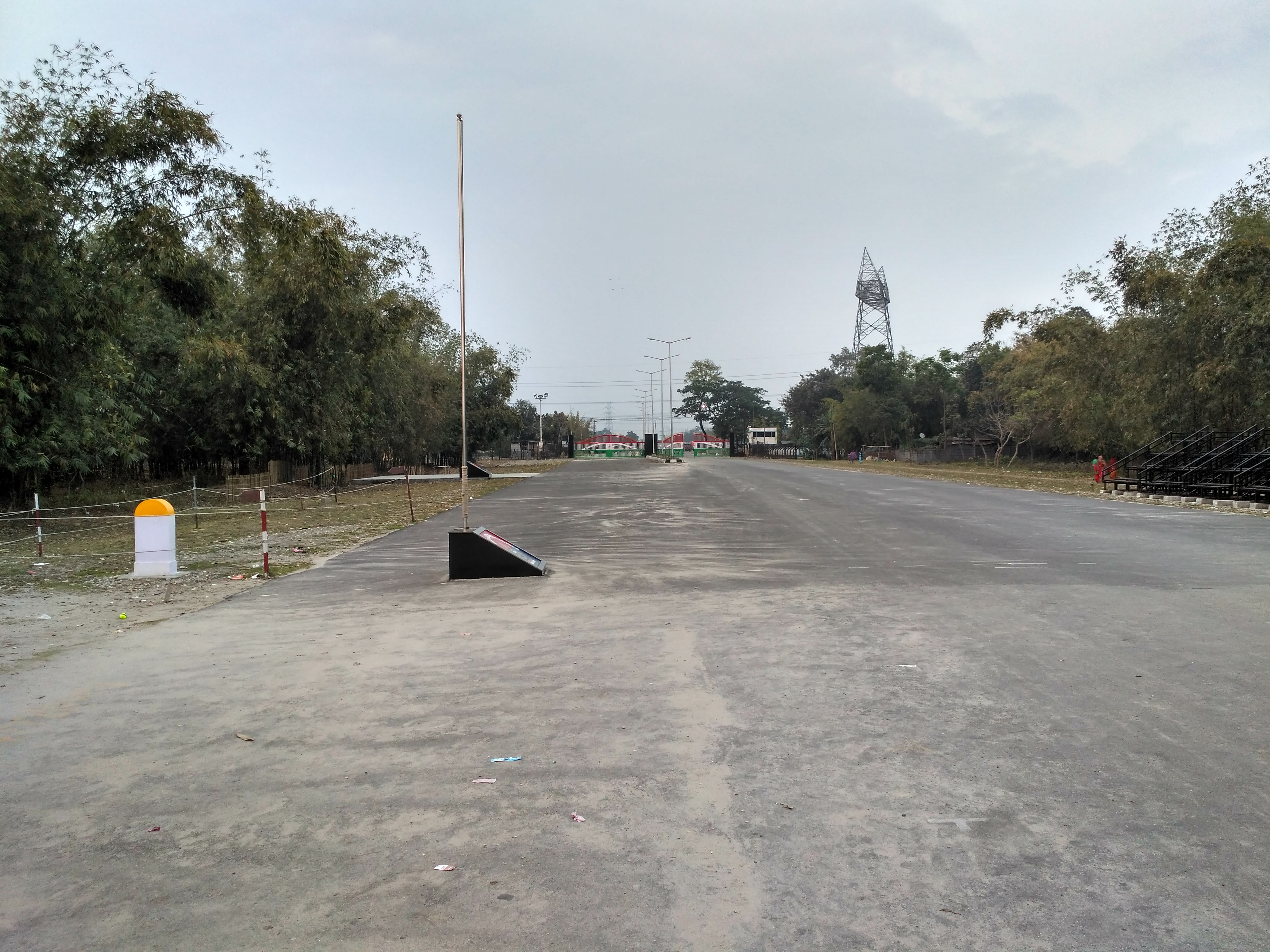 End of N5 national highway of Bangladesh and start of AH2 Indian highway at Banglabandha zero point, Tetulia Panchagarh. (01.03.2019)